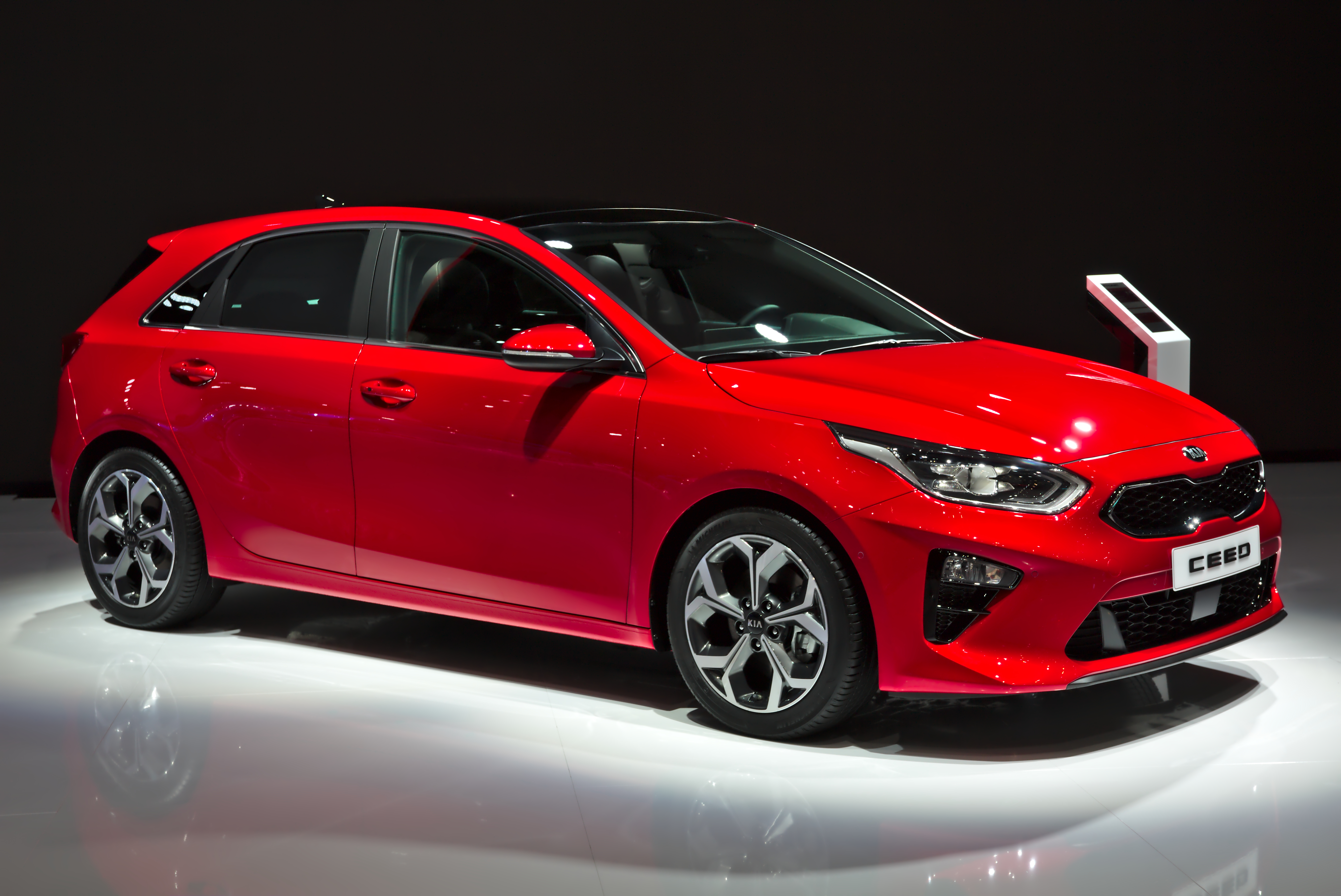 Kia Ceed at Geneve 2018